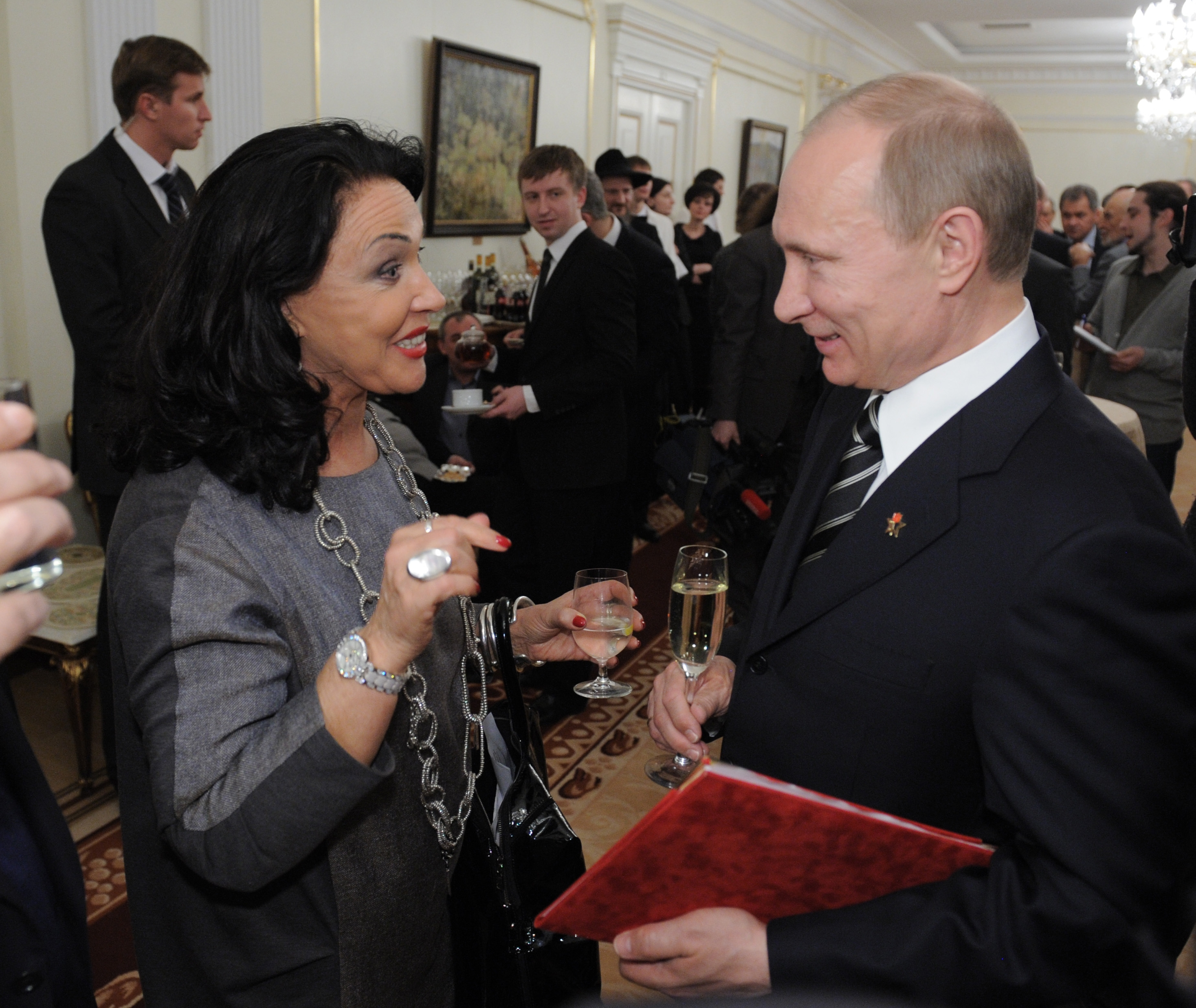 Vladimir Putin and People’s Artist of Russia, Art Director of the Russian Song Company Nadezhda Babkina